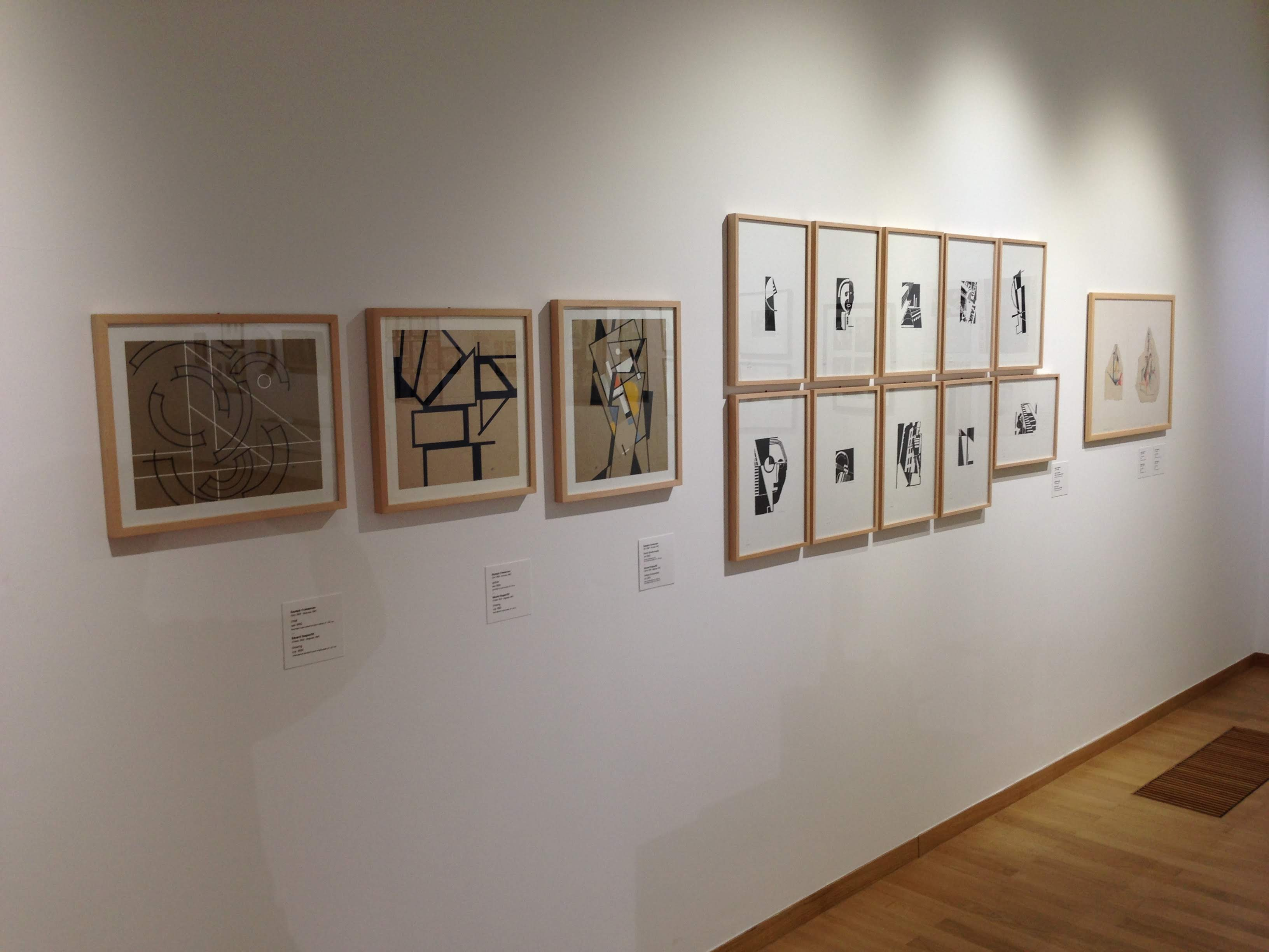 Slovene Constructivism